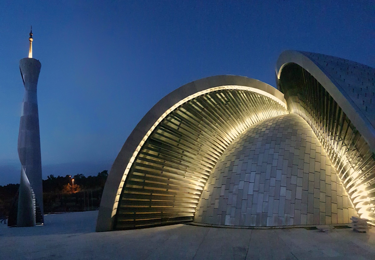 Mosque in Rijeka